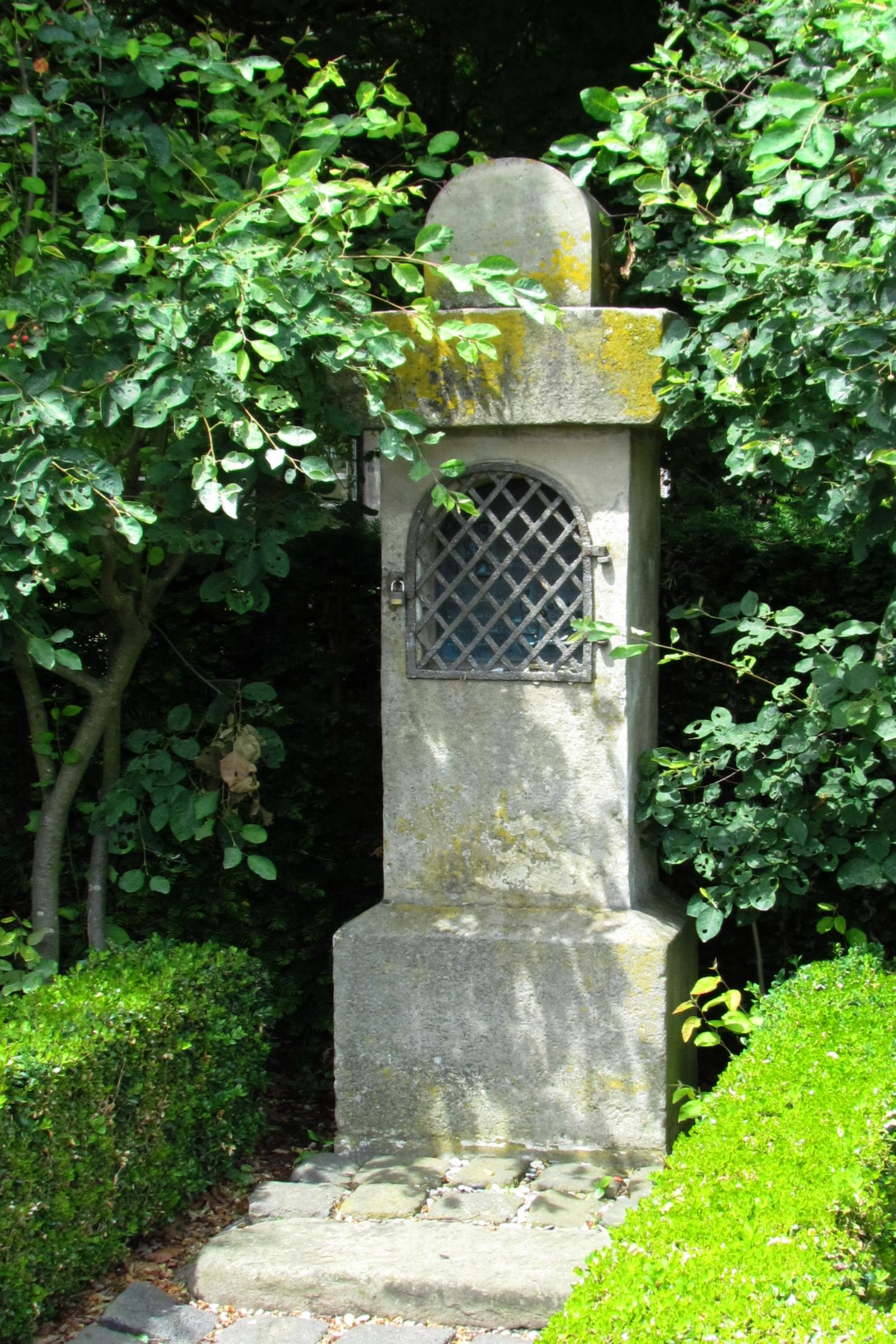 This is a photograph of an architectural monument.It is on the list of cultural monuments of Korschenbroich